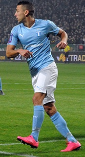 Nikola Đurđić during the men's Fotbollsallsvenskan soccer game AIK-Malmö FF (2-1) at the Friends Arena in Solna, Sweden on 4 October 2015.